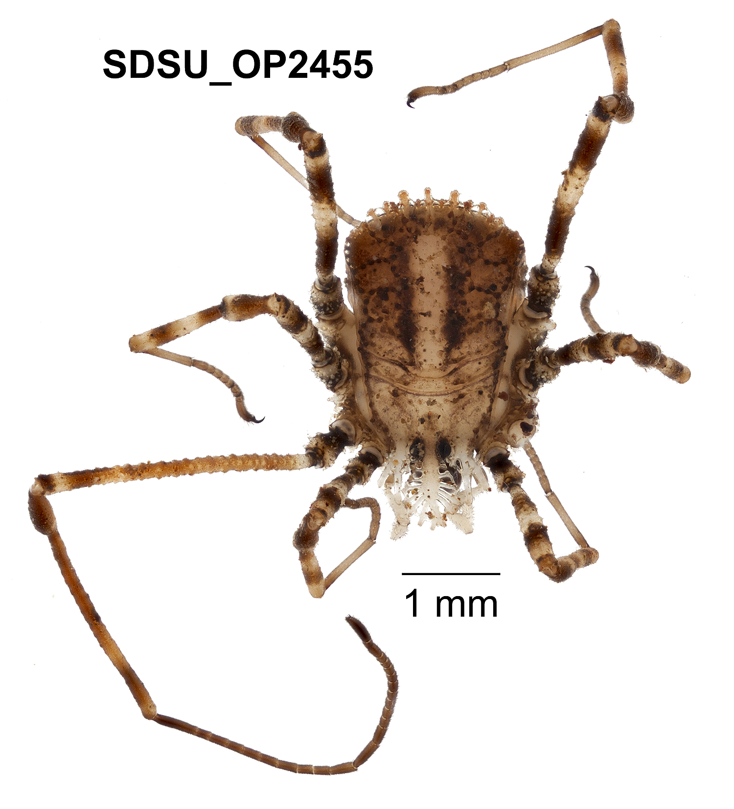 Ortholasma pictipes Banks, 1911; PRESERVED_SPECIMEN; MALE; ; 20/09/2008 00:00; Identified by: M Hedin